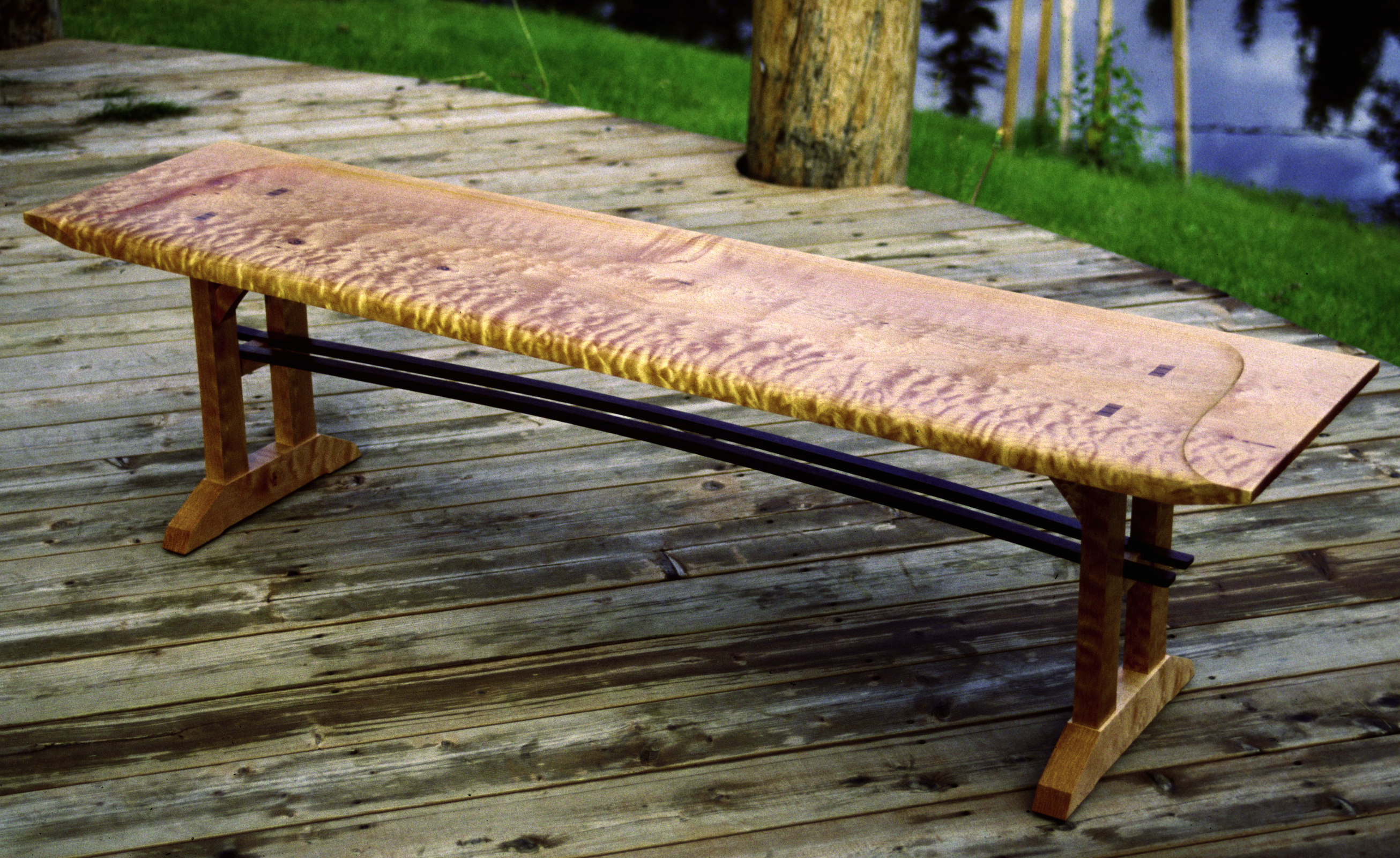 Photo taken by me, Aaron Morse, of carved bench made of highly-figured maple.